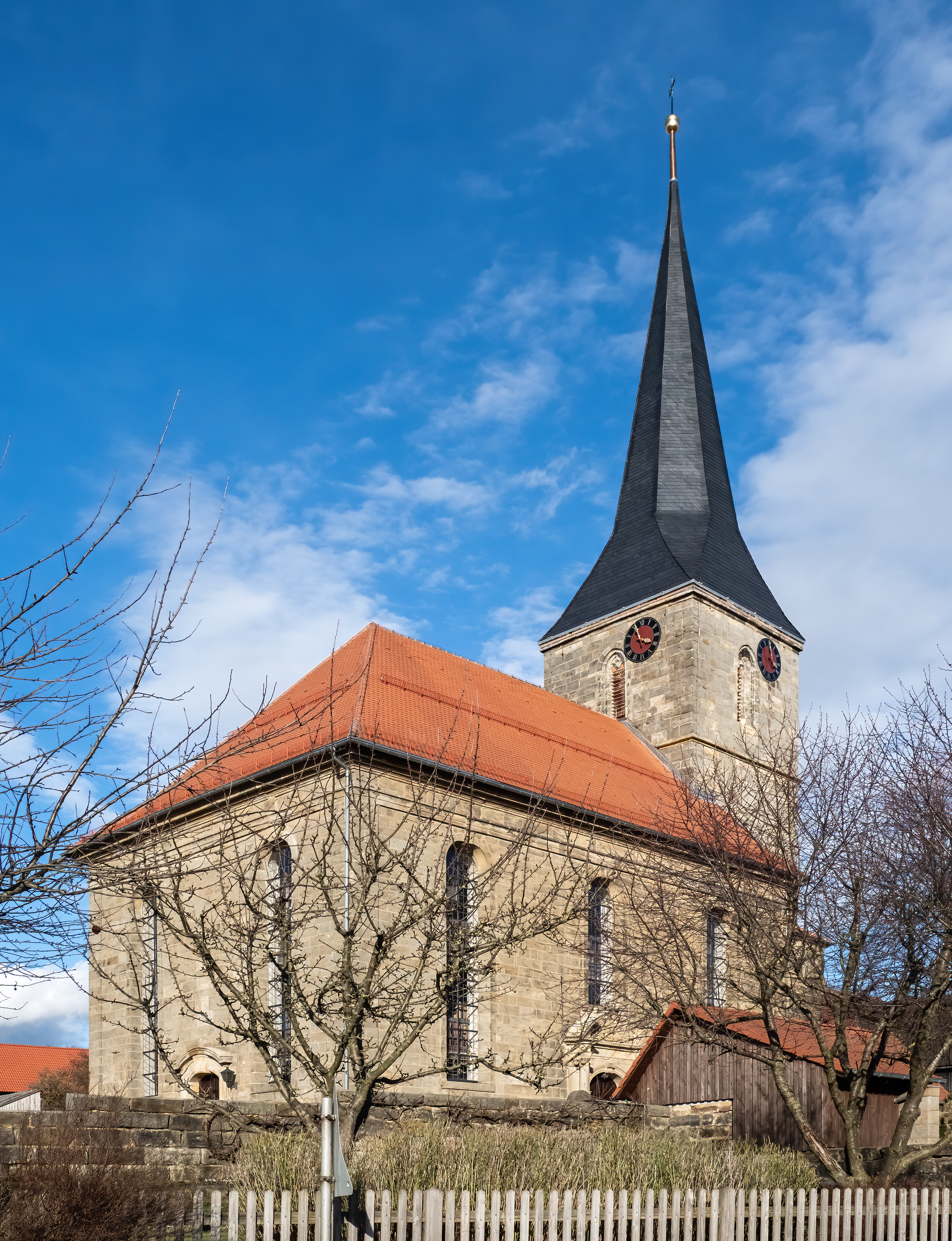 Evangelical-Lutheran parish church in Mistelgau